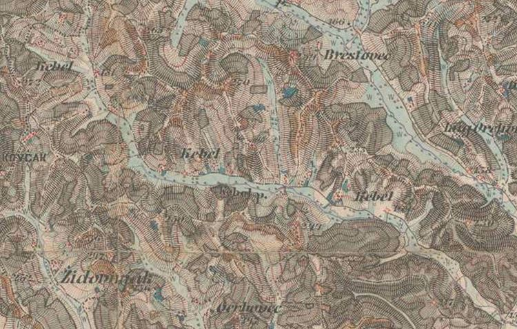 Kebel teritory, Habsburg monarchy 3th military survey 1869.